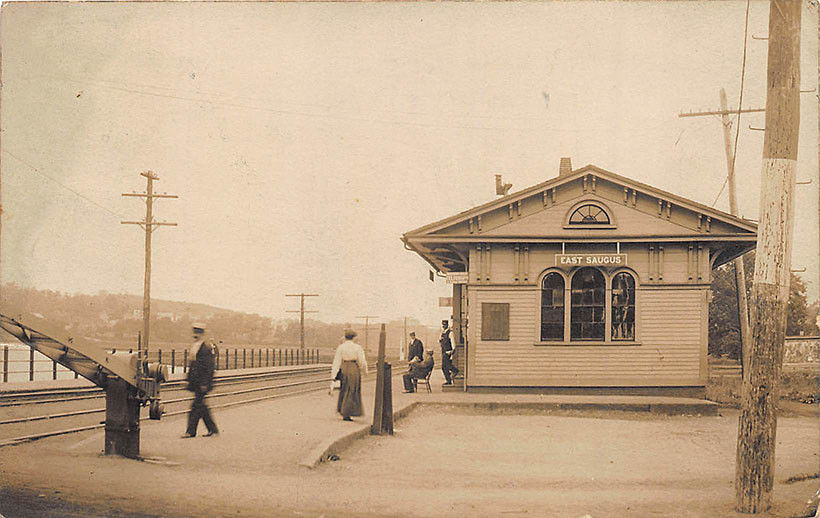 1910 divided back postcard of East Saugus station